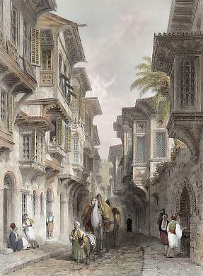 A Street in Smyrna.